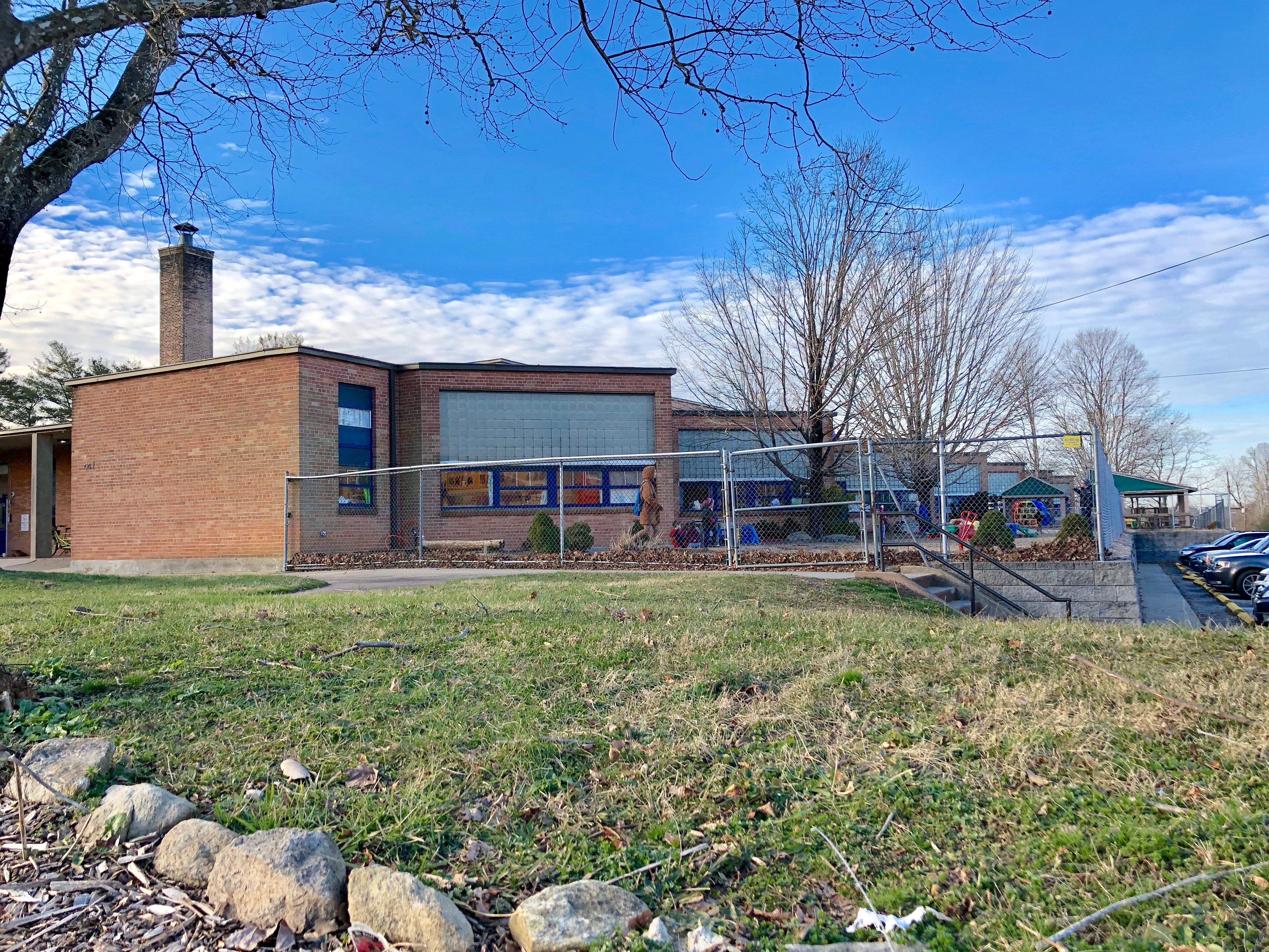 This is the former Charles B. Aycock School, constructed in 1953 on Haywood Road in West Asheville, a neighborhood of Asheville, North Carolina. The building was later home to the Asheville City Preschool, and is now known as the Asheville Primary School. It is a contributing structure in the Asheville–Aycock School Historic District, listed on the National Register of Historic Places in 2006.